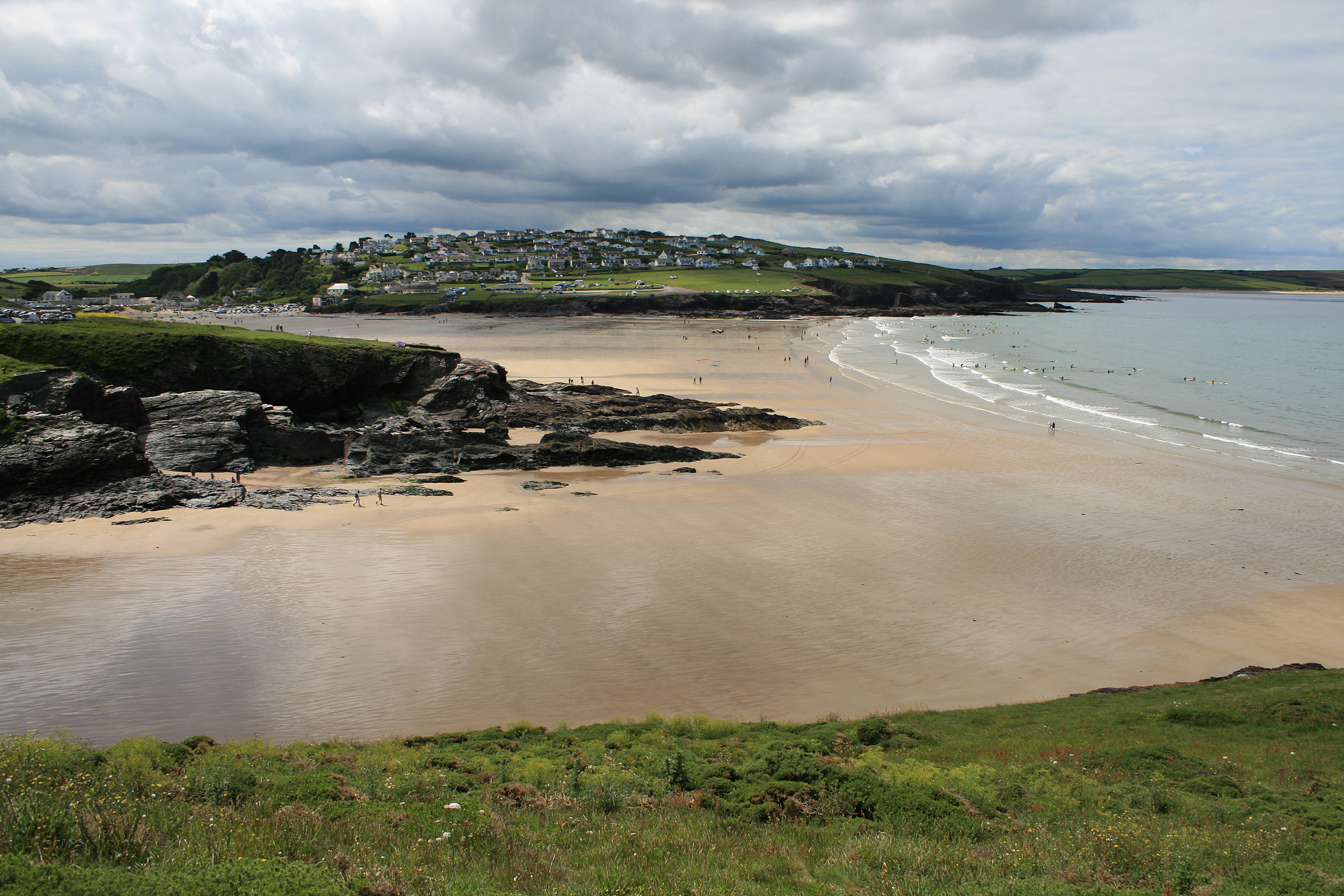 Polzeath is a small village on the north coast of Cornwall, England, United Kingdom. Polzeath Conwall UK in June 2007